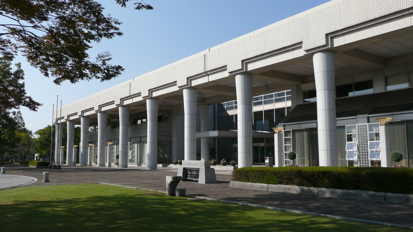 Miyazaki Prefectural Library (Miyazaki City, Japan)